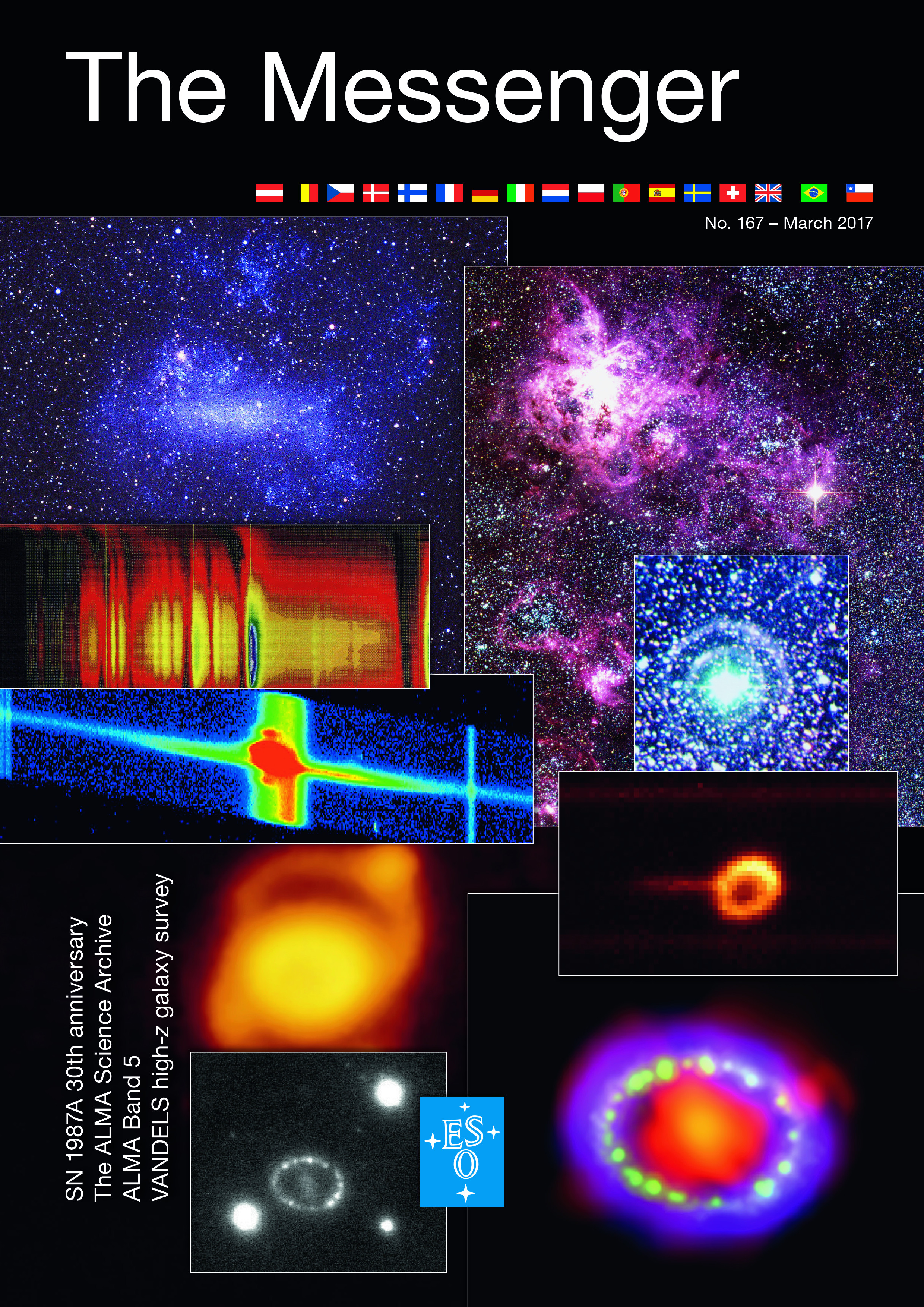 Cover of The Messenger 167